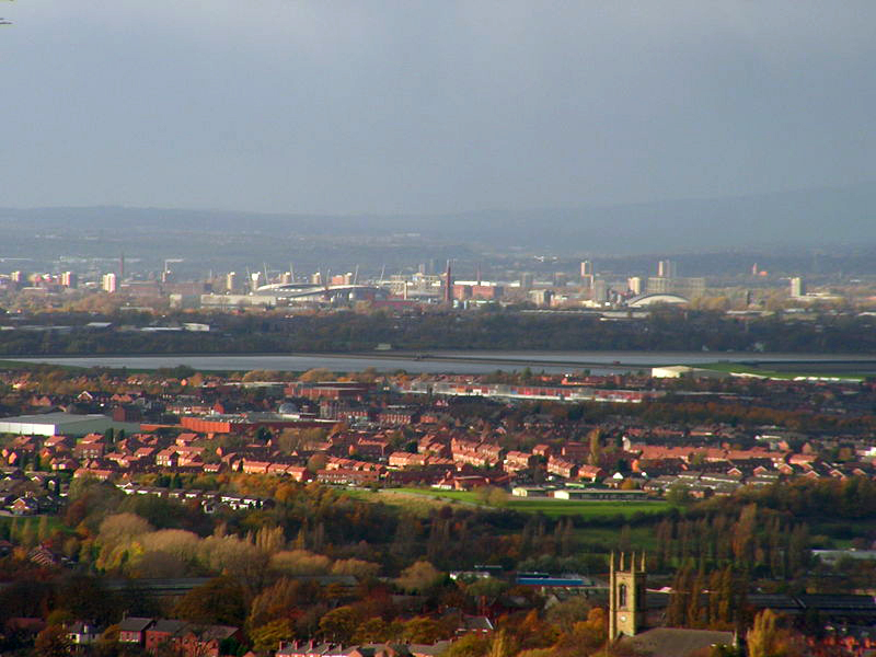 Audenshaw Reservoir and surrounding Audenshaw in Greater Manchester, England. Viewed from Werneth Low with the City of Manchester Stadium in the background.